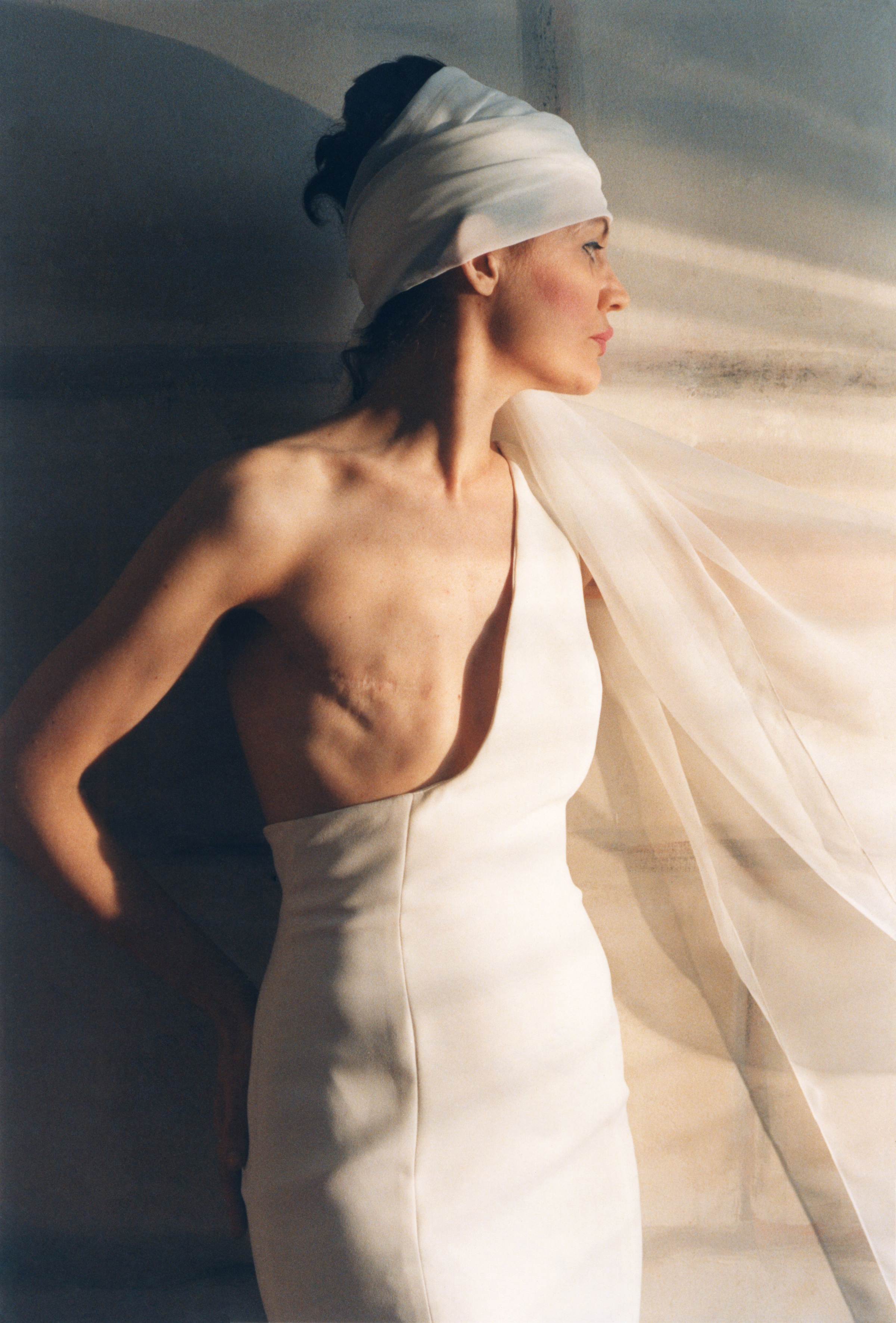 Matuschka's controversial self portrait baring her mastectomy combined with her face. The photo covered the New York Times Sunday Magazine and helped spark debate about breast cancer around the US and the world